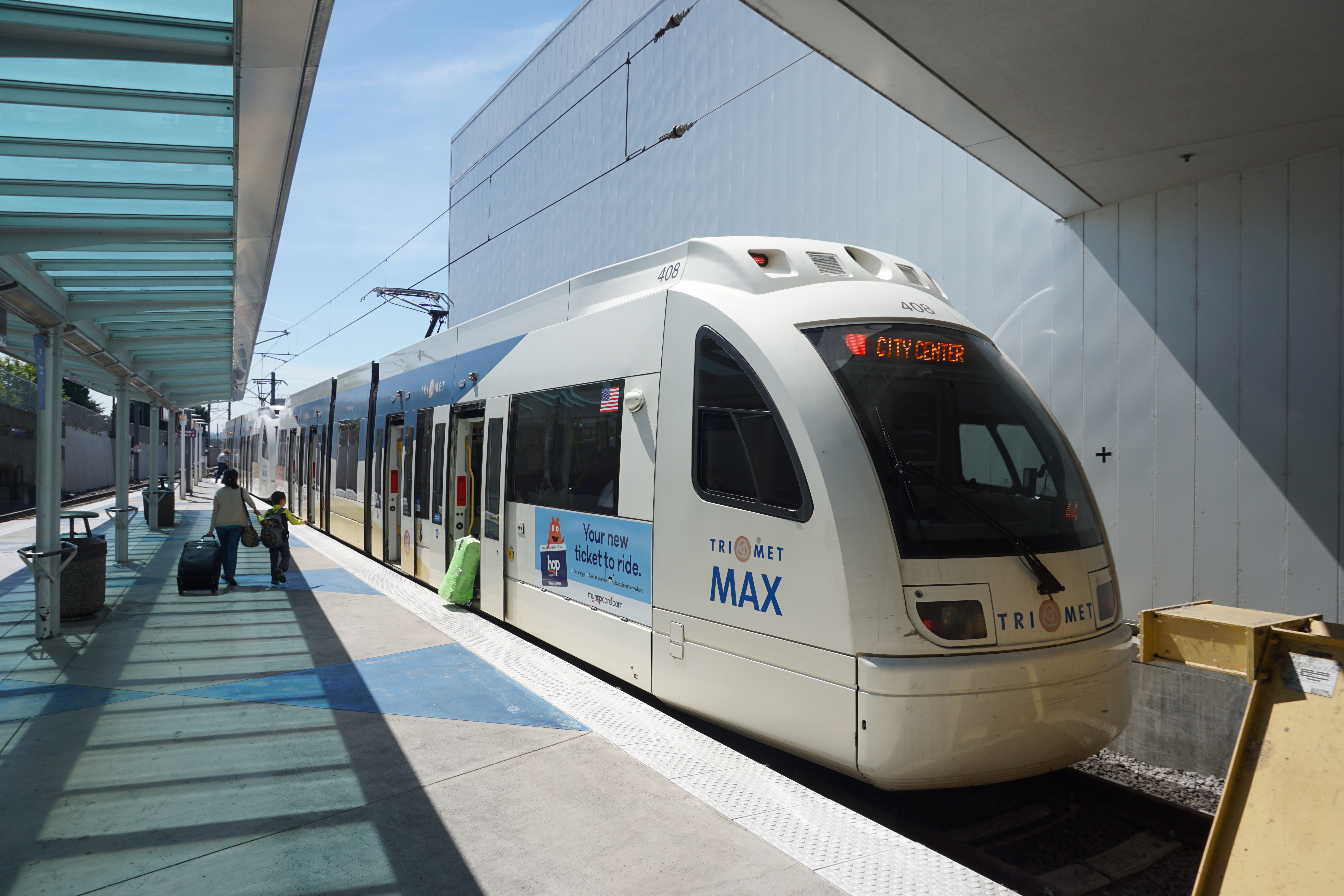 A MAX Light Rail Red Line train at the Portland International Airport MAX Station in Portland, Oregon (United States).